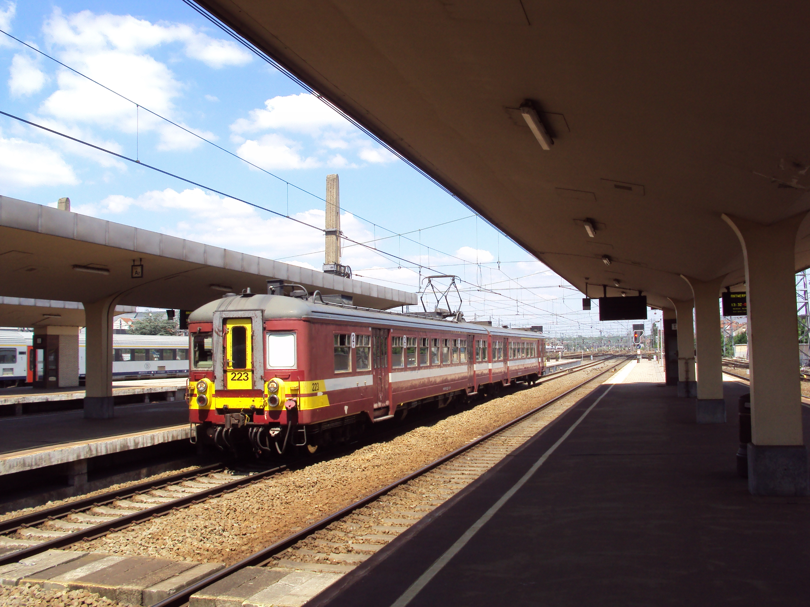 AM 223, Brussels-North station